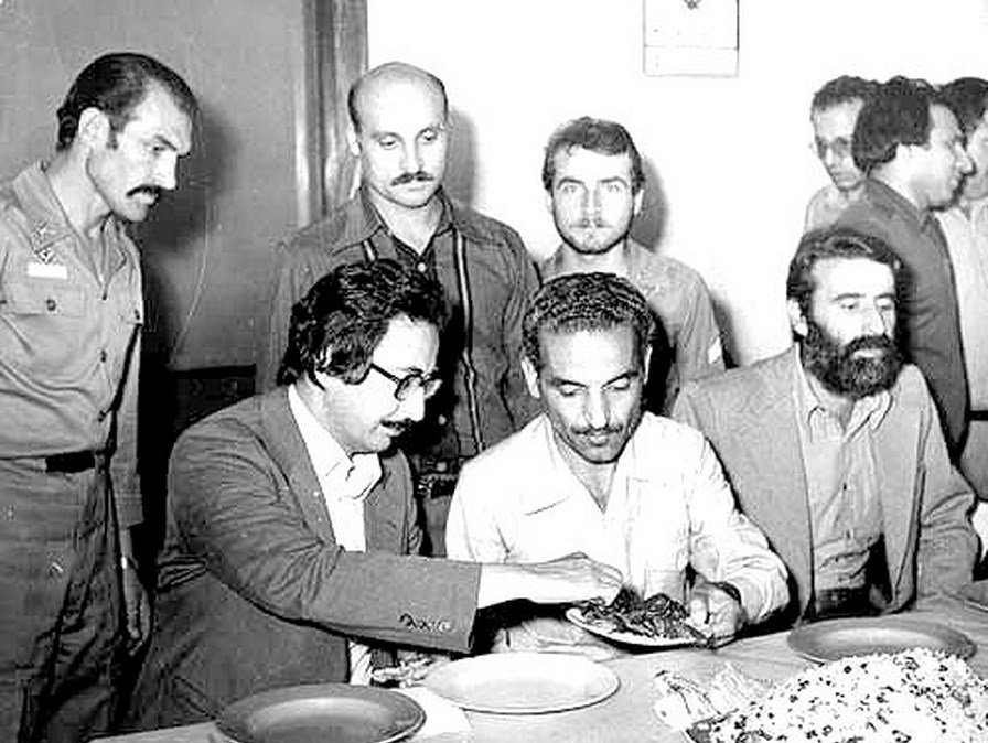 Abolhassan Banisadr and Mohammad-Ali Rajai